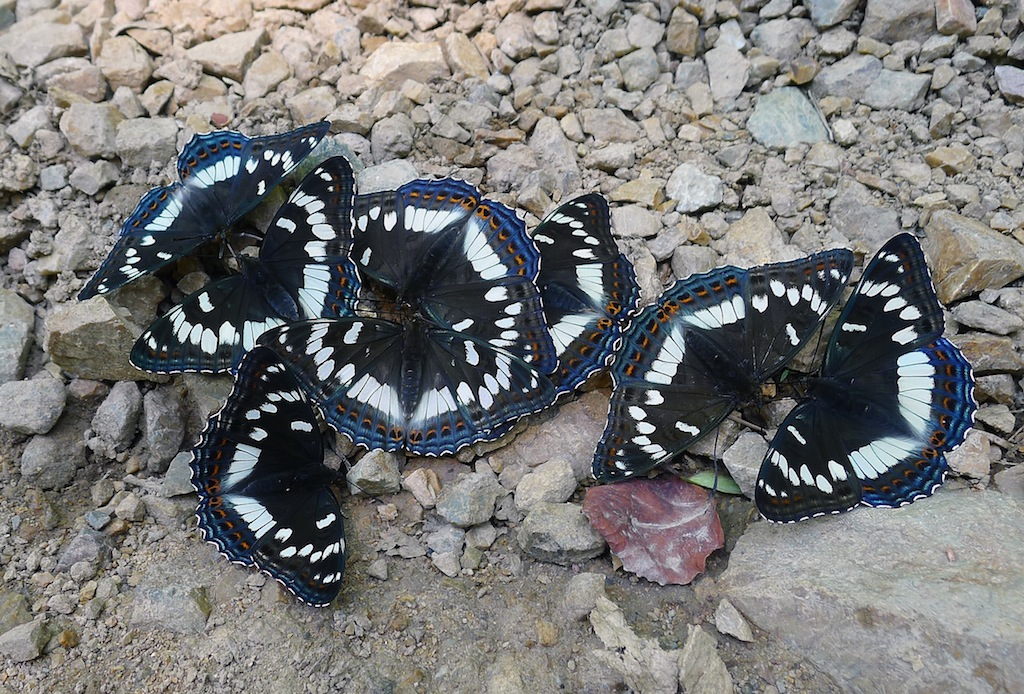 Limenitis populi ussuriensis Close to Khabarovsk city